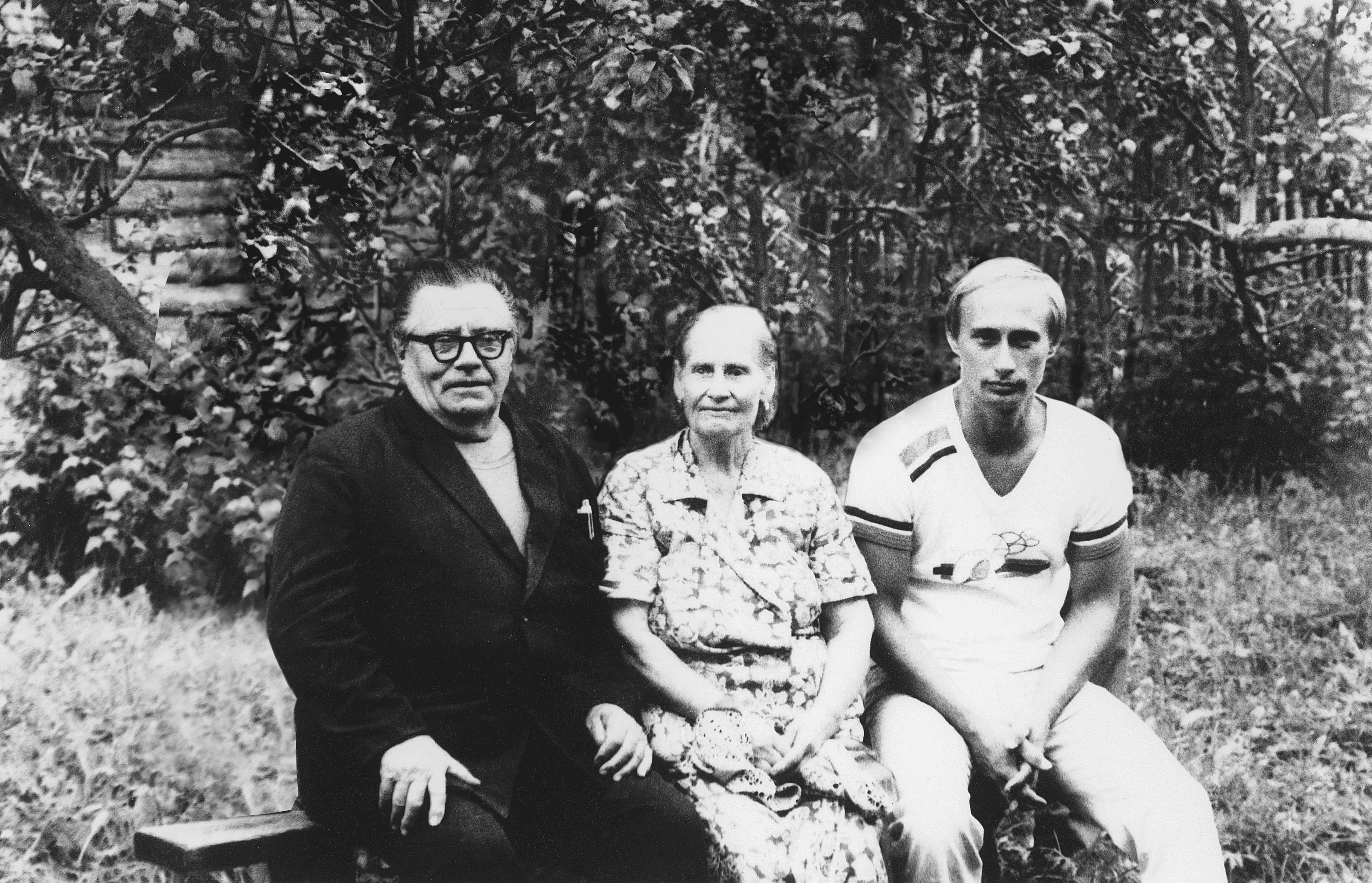 Vladimir Putin with his parents in 1985 before his departure to the GDR